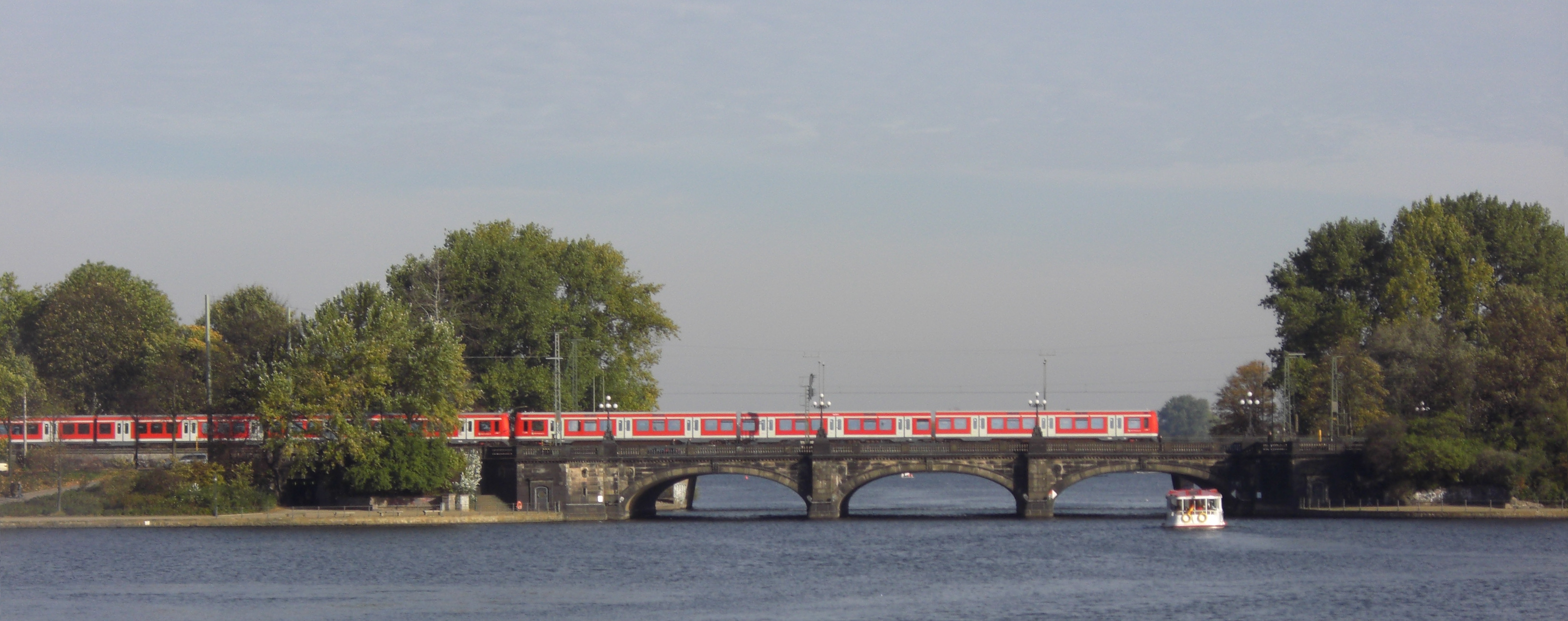 Vollzug der S-Bahn Hamburg auf der Lombardsbrücke This is a photograph of an architectural monument.